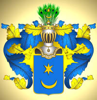 Coat of Arms of Lashkevichy family